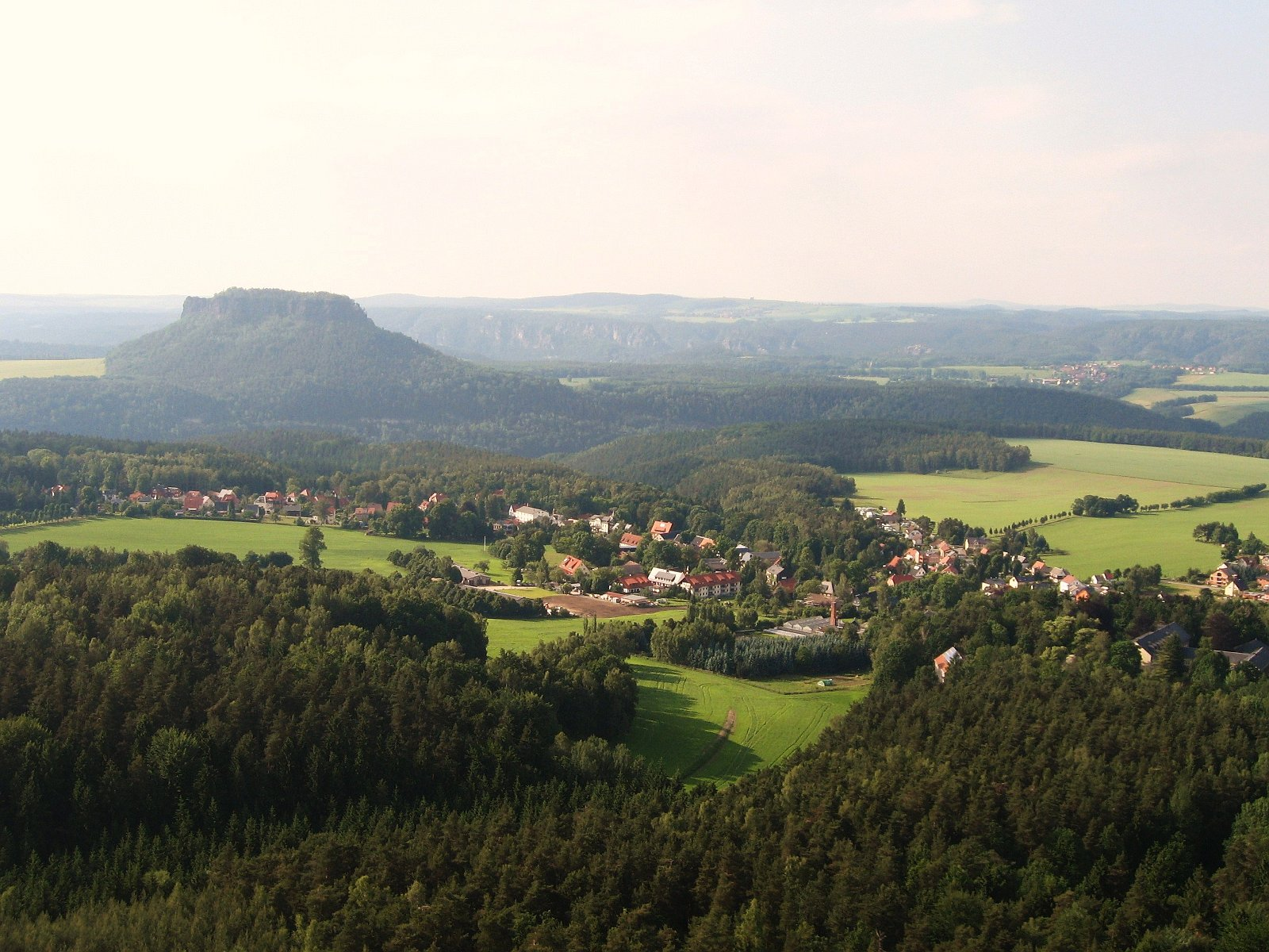 Germany / Saxony: Mountain Gohrisch in Saxon Switzerland: view to Lilienstein